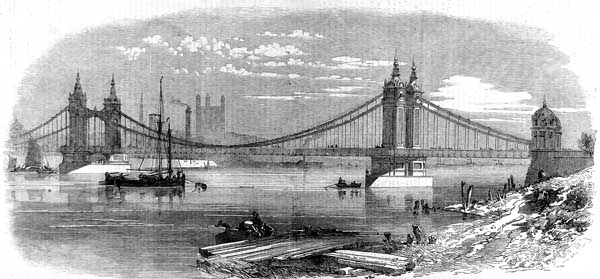 Chelsea Bridge, London, shortly after opening